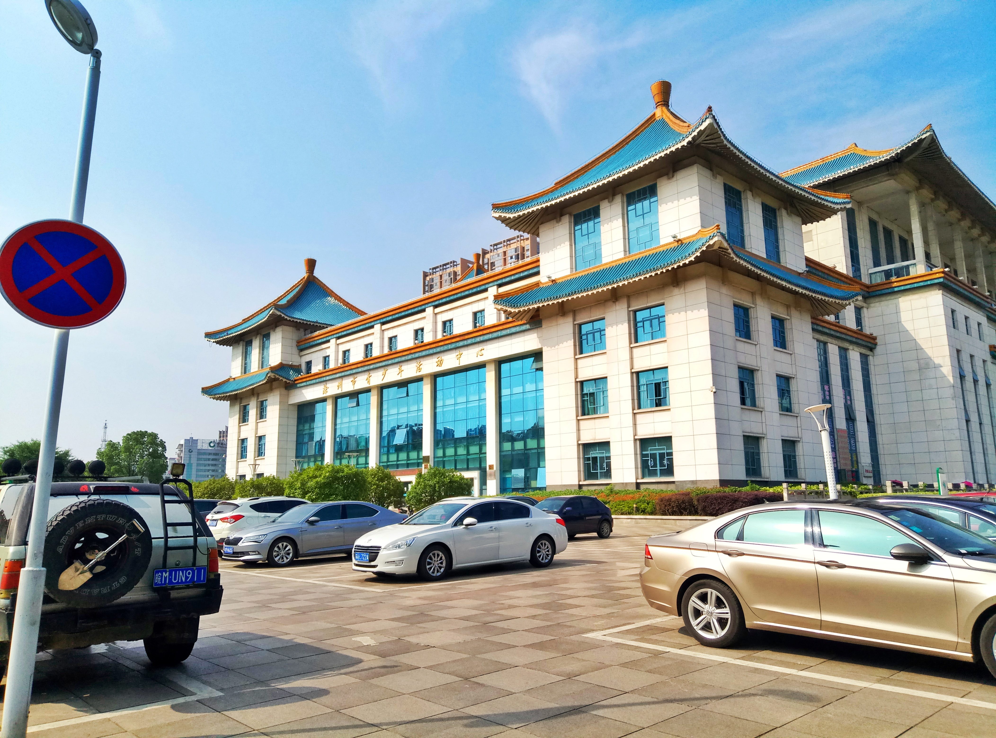 Chuzhou City Youth Activity Centre